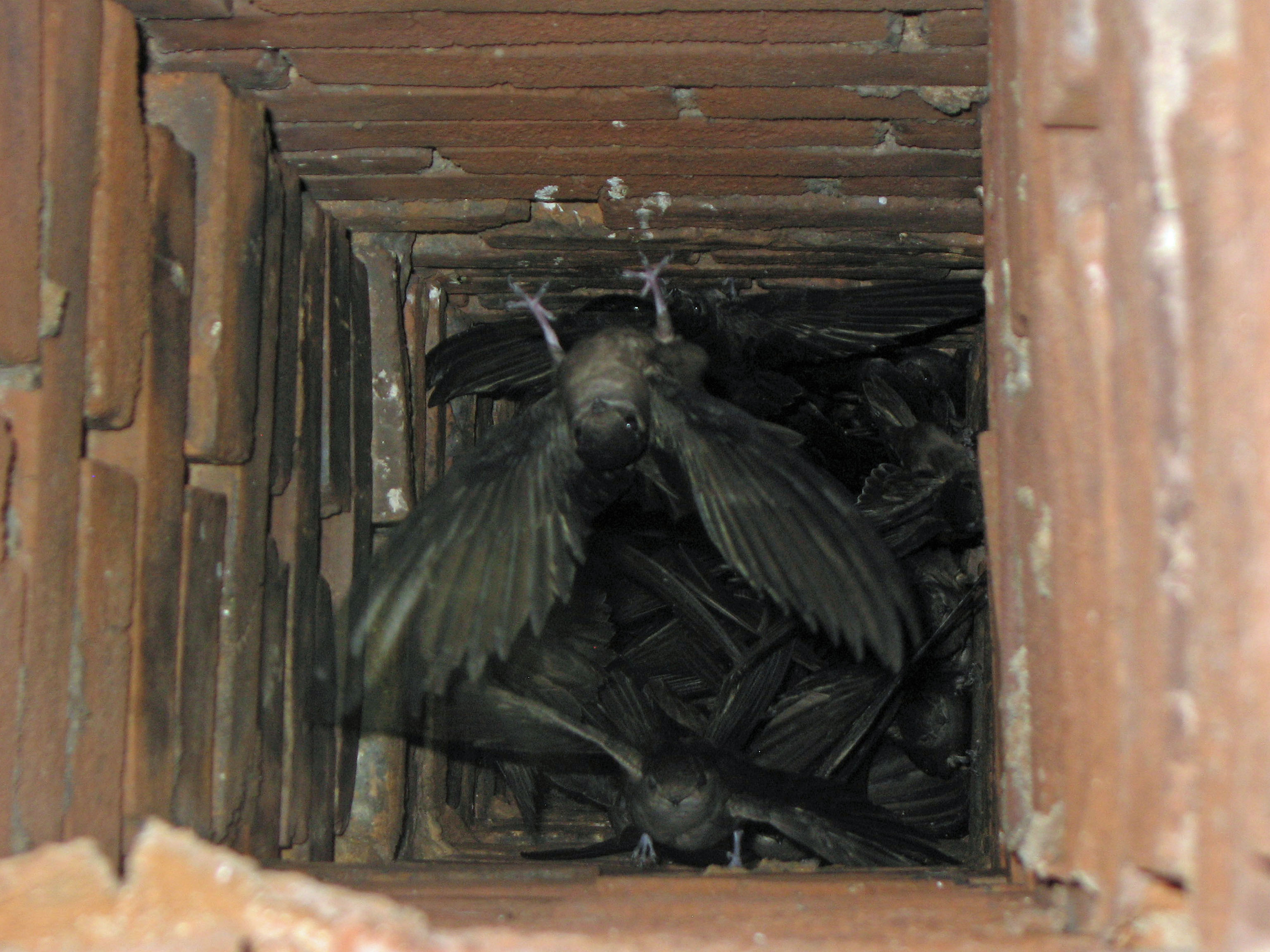 Several Chimney Swifts inside a chimney in Perryville, Missouri, USA.